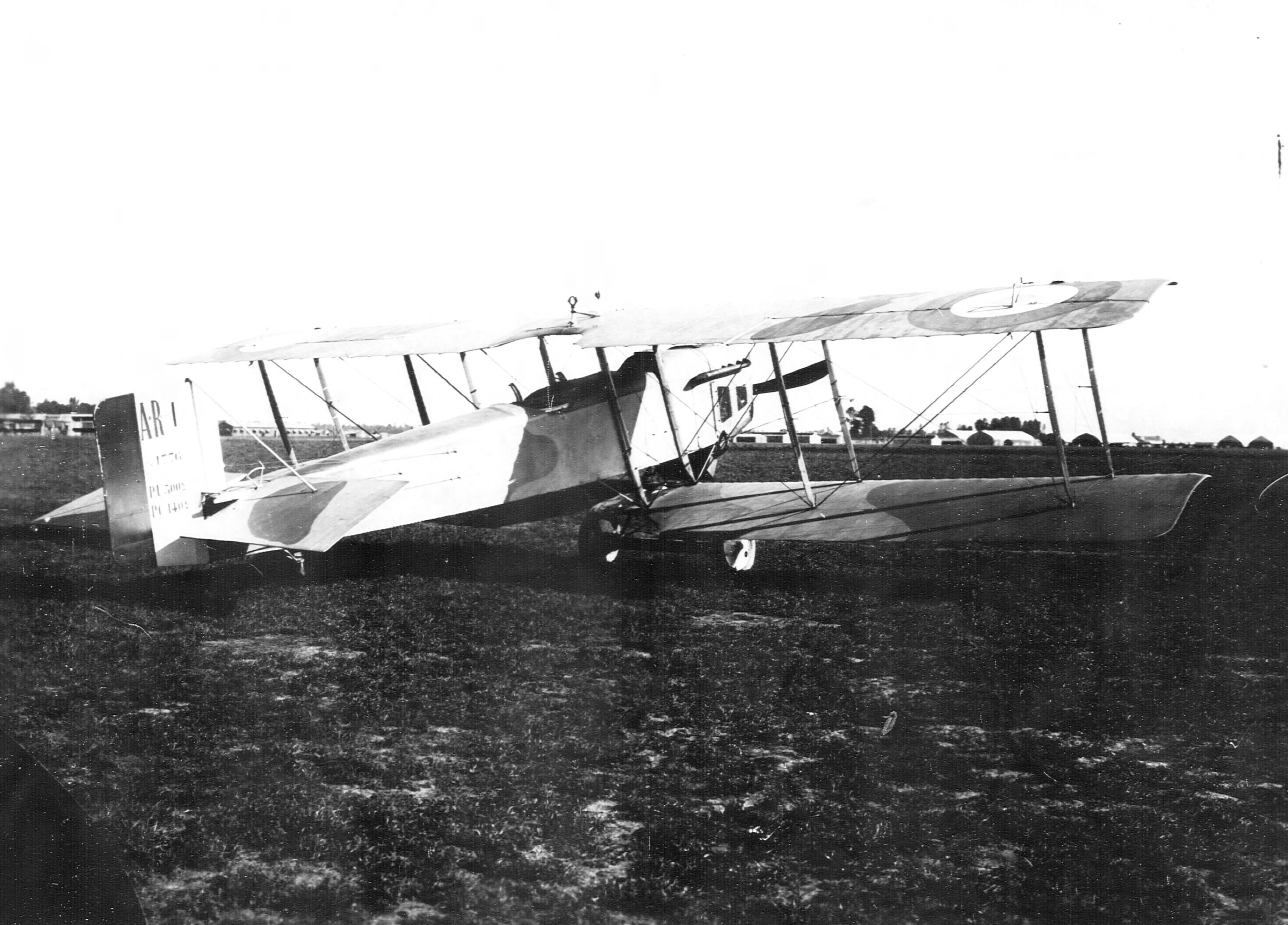 Dorand AR.1 at at Air Service Production Center No. 2, Romorantin Aerodrome, France, 1918